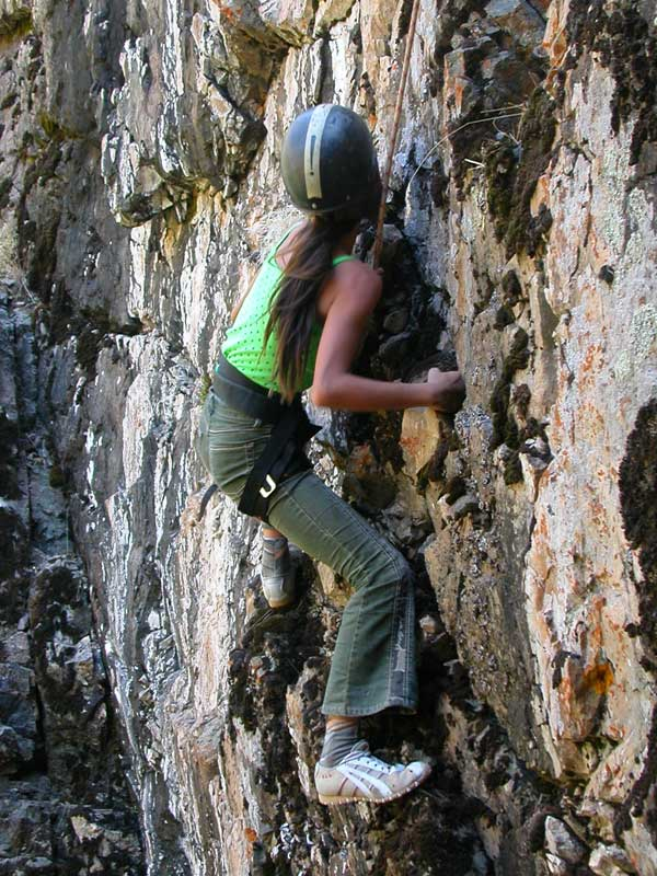 Rock climbing in Uzbekistan. (author Dmitriy A. Pitirimov, )